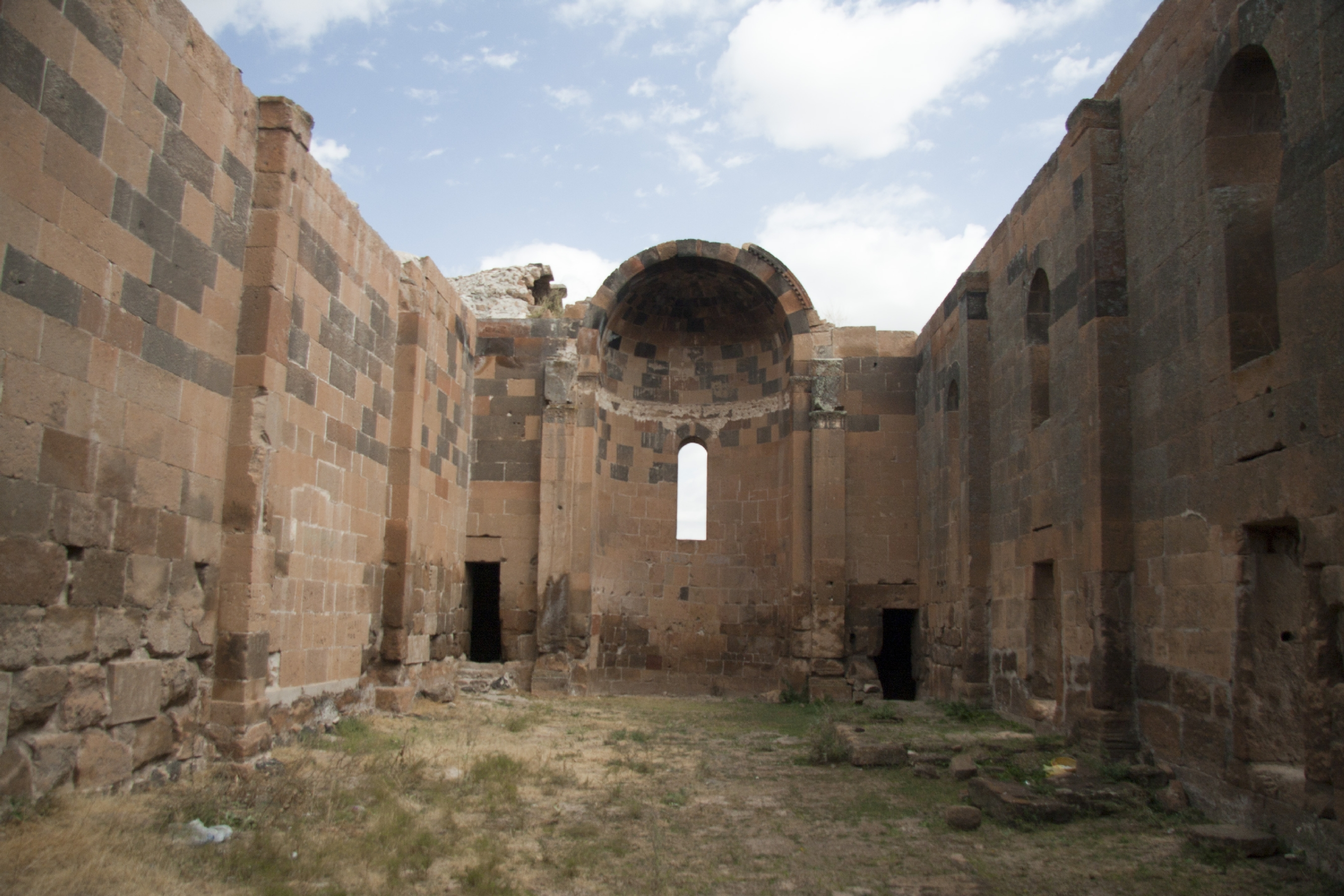 Երերույքի Տաճար 13/2.7